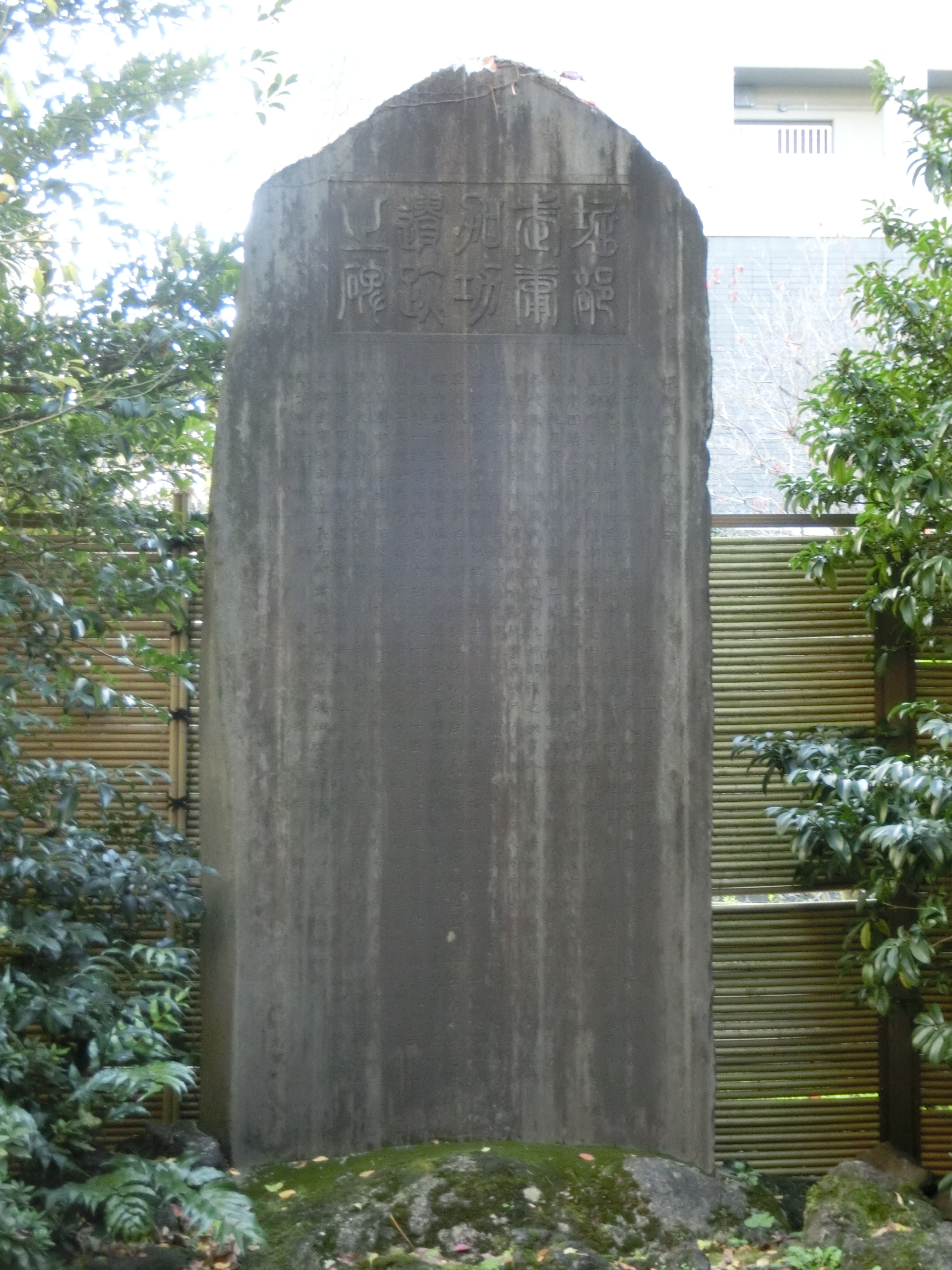 Horibe Taketsune Monument (Shinjuku)